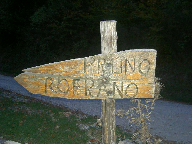 Wood-made roadsign at Croce di Pruno